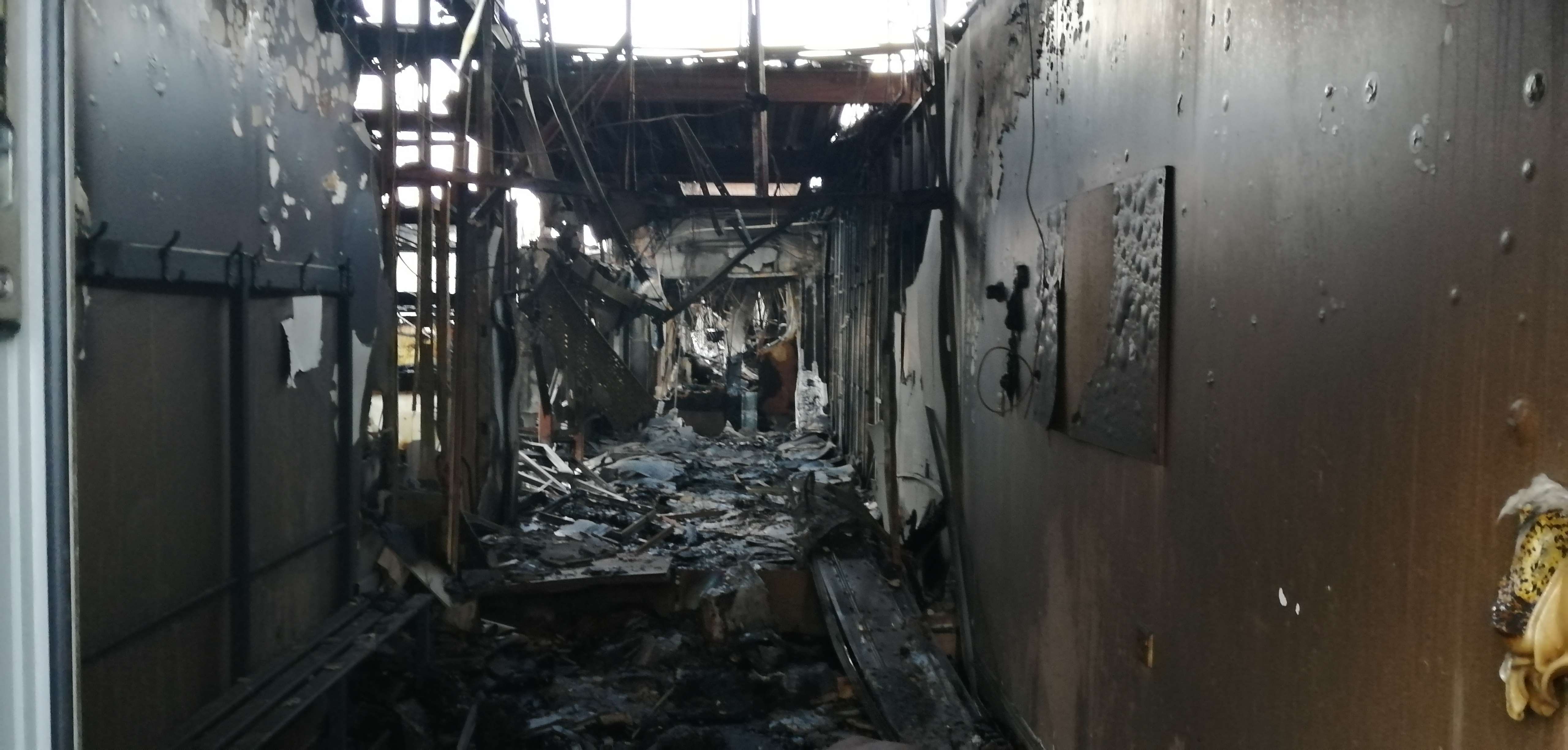 A view (entrance of the DAS) of the the aftermath of the fire that occurred in Woodmill High School in Dunfermline on the 25th